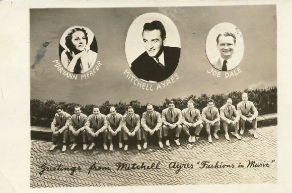 Promotional postcard Copyright details There are no copyright markings on either side of the postcard, as can be seen on front and back views. Ayres and his fellow musicians started the band known as "Fashions in Music" in 1937, continuing with it into the 1940s. This postcard was created by the band as a promotional item for it. Mitchell Ayres no longer referred to the band he was leading by 1948; at the time he was signed for The Chesterfield Supper Club, his group was known as Mitchell Ayres and his Orchestra, or the Mitchell Ayres Orchestra. The name "Fashions in Music" was no longer used. Mitchell Ayres died in 1969, so this item is well within the pre-1978 guidelines for unmarked material.